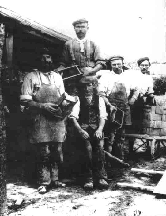 Brick making around the turn of the century